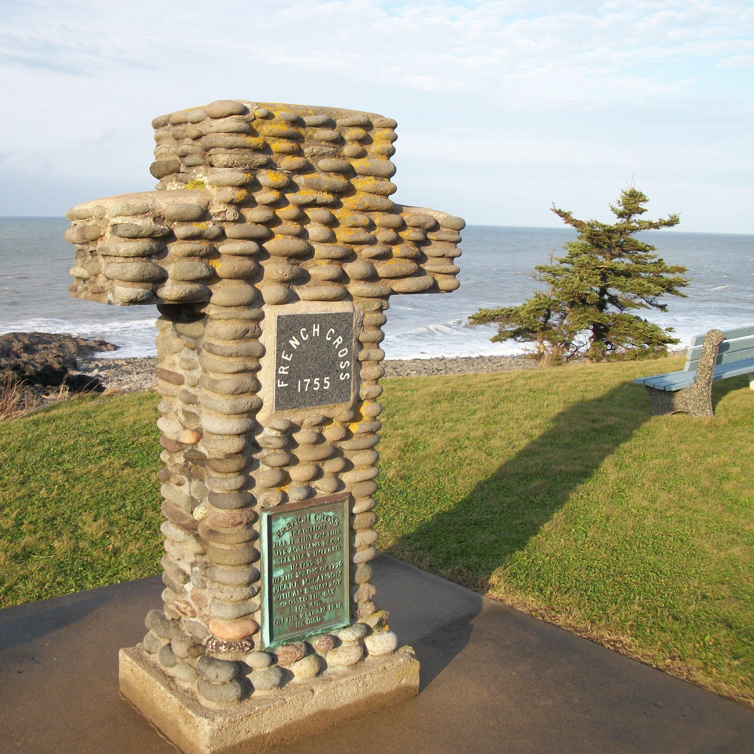 Stone cross at Morden, Nova Scotia. It was erected in 1964 to replace an earlier cross which had deteriorated. The cross commemorates the loss of Pierre Melanson in 1756. The tablet reads: "French Cross. Tradition has it that on this site Acadians from Belle Isle wintered in 1755-56. In the spring of 1756 Pierre Melanson with an Indian boy crossed the bay for aid. On the return trip he died."